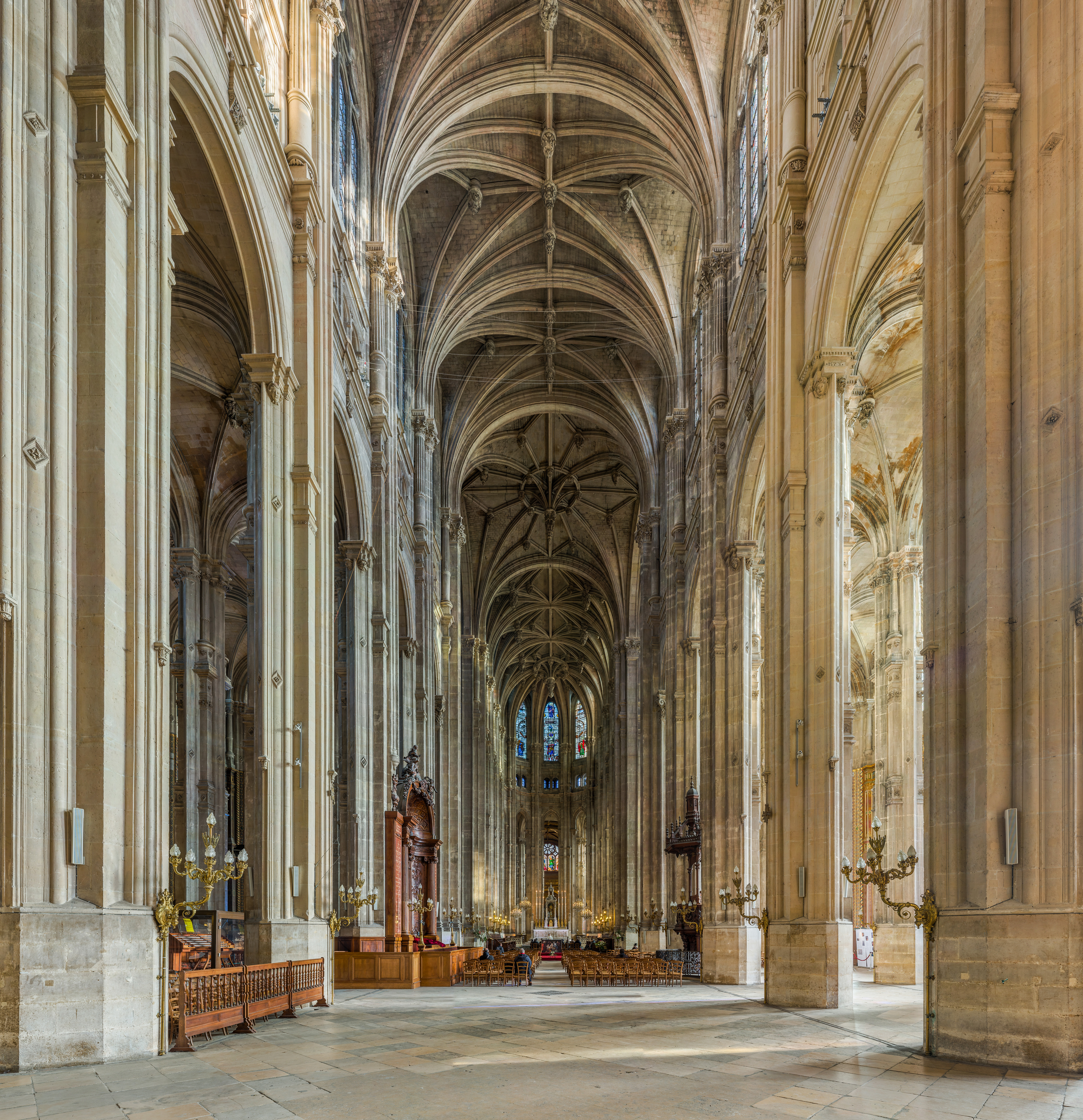 The interior of the Church of St Eustace, Paris, France.